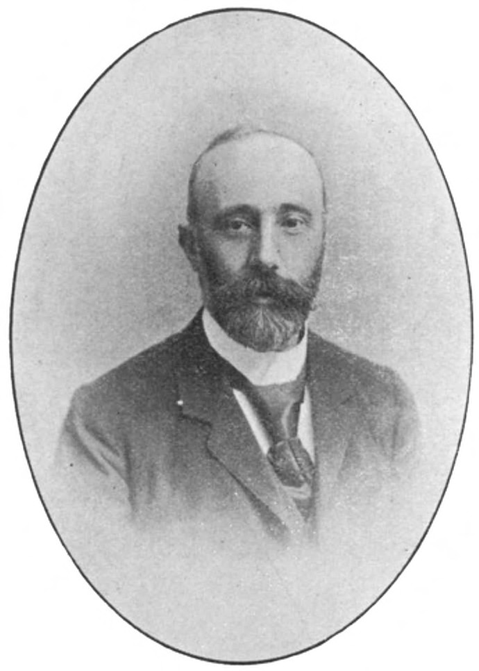 nameMr. E. E. VAN RAALTE. political affiliationFree-thinking Democratic League positionmember of the House of Representatives of the Netherlands electoral districtRotterdam V